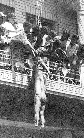 14 July revolution in Iraq - mutilated corpse of Crown Prince Abd al-Ilāh of Hejaz